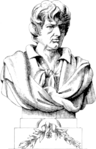 Monument of Eustache-Hyacinthe Langlois (1777 – 1837), French painter, draftsman, printmaker and writer, in his native town of Pont-de-l'Arche.